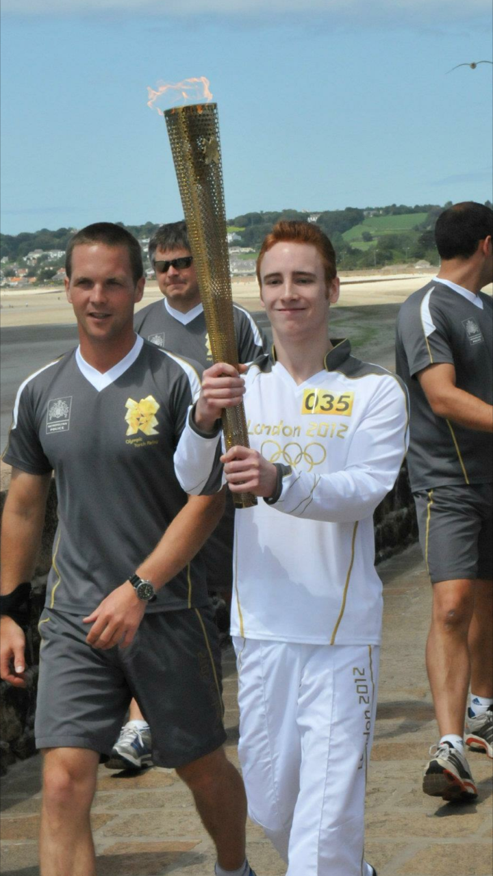 Alex Buesnel carrying the London 2012 Olympic Torch